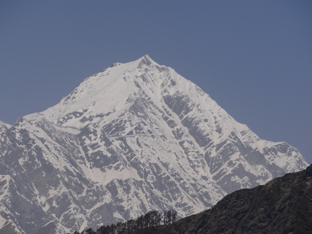 Rothang pass